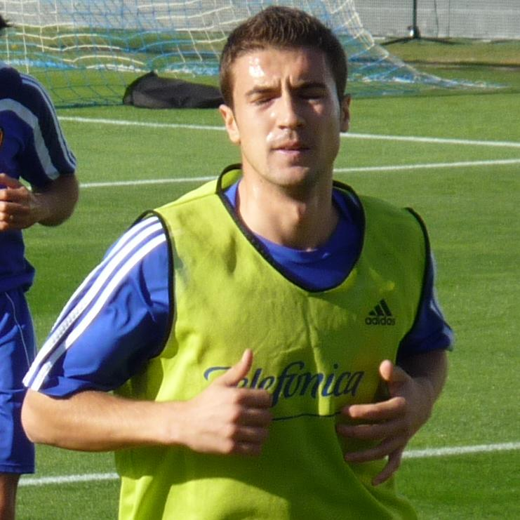 Gabi in 2009